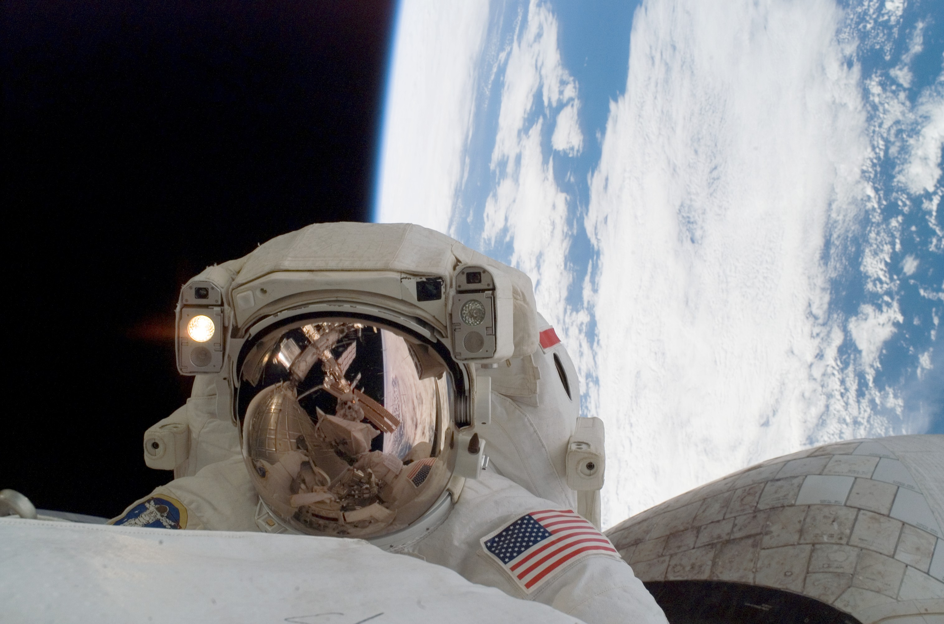 Astronaut Rick Linnehan, STS-123 mission specialist, participates in the mission's first scheduled session of extravehicular activity (EVA) as construction and maintenance continue on the International Space Station. During the seven-hour and one-minute spacewalk, Linnehan and astronaut Garrett Reisman (out of frame), Expedition 16 flight engineer, prepared the Japanese logistics module-pressurized section (JLP) for removal from Space Shuttle Endeavour's payload bay; opened the Centerline Berthing Camera System on top of the Harmony module; removed the Passive Common Berthing Mechanism and installed both the Orbital Replacement Unit (ORU) tool change out mechanisms on the Canadian-built Dextre robotic system, the final element of the station's Mobile Servicing System.